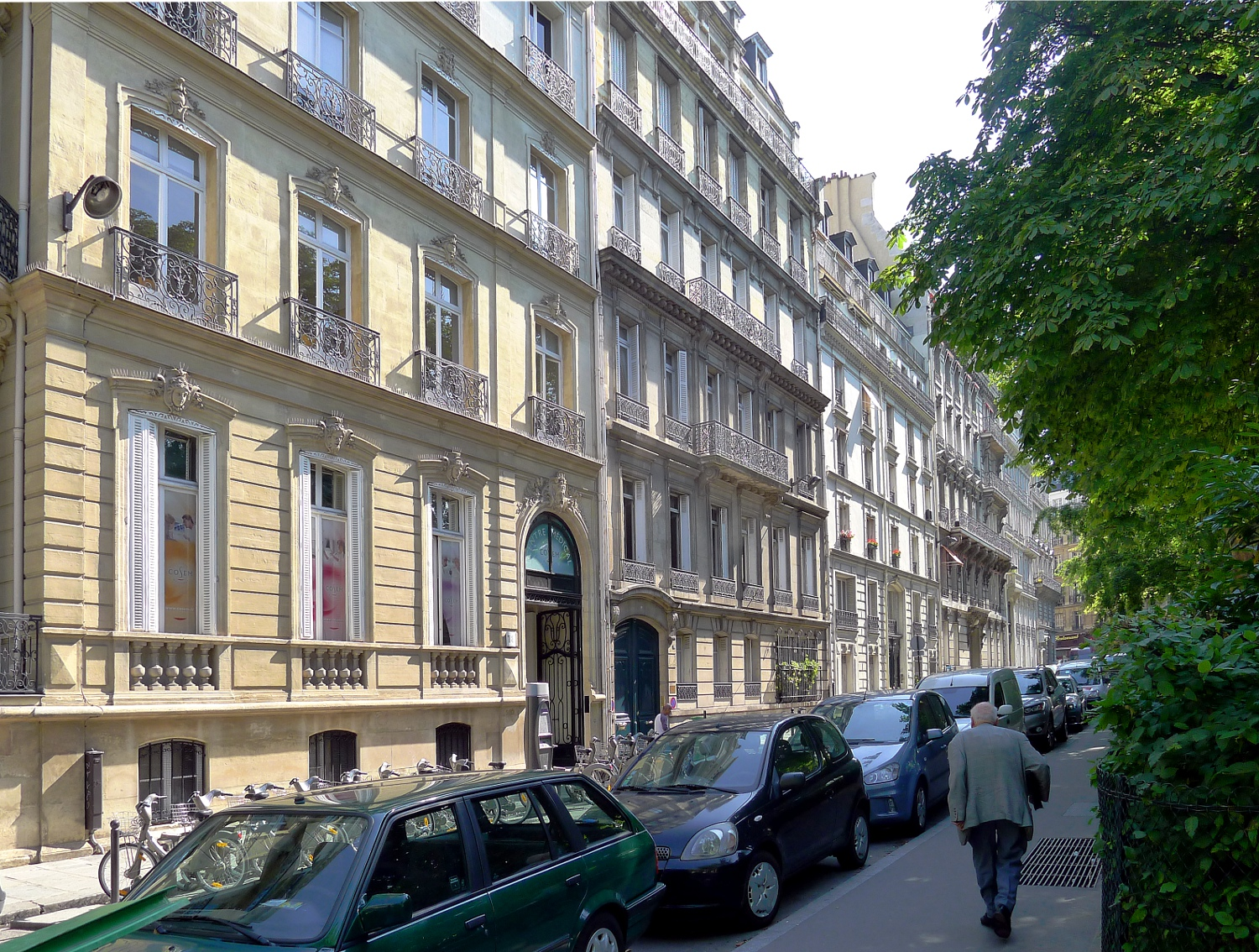 Henri-Bergson place